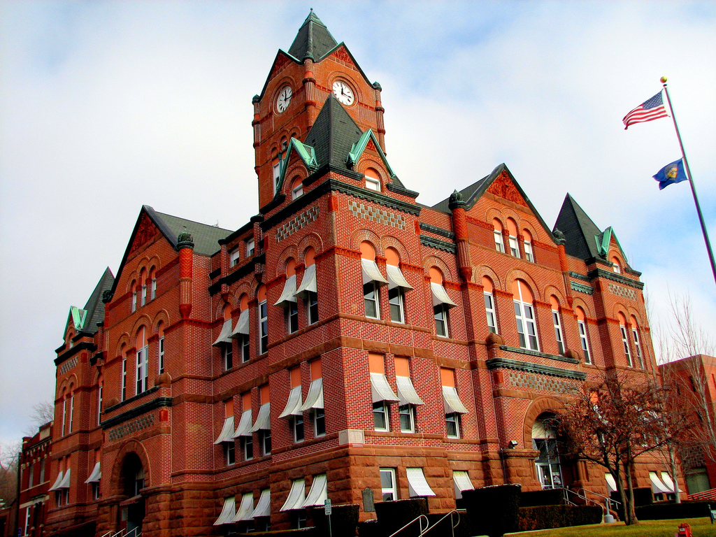 Cass County Courthouse in Plattsmouth, Nebraska, United States